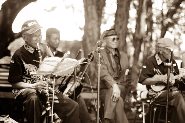 Keroncong Merah Putih, Pasar Seni ITB 2010.